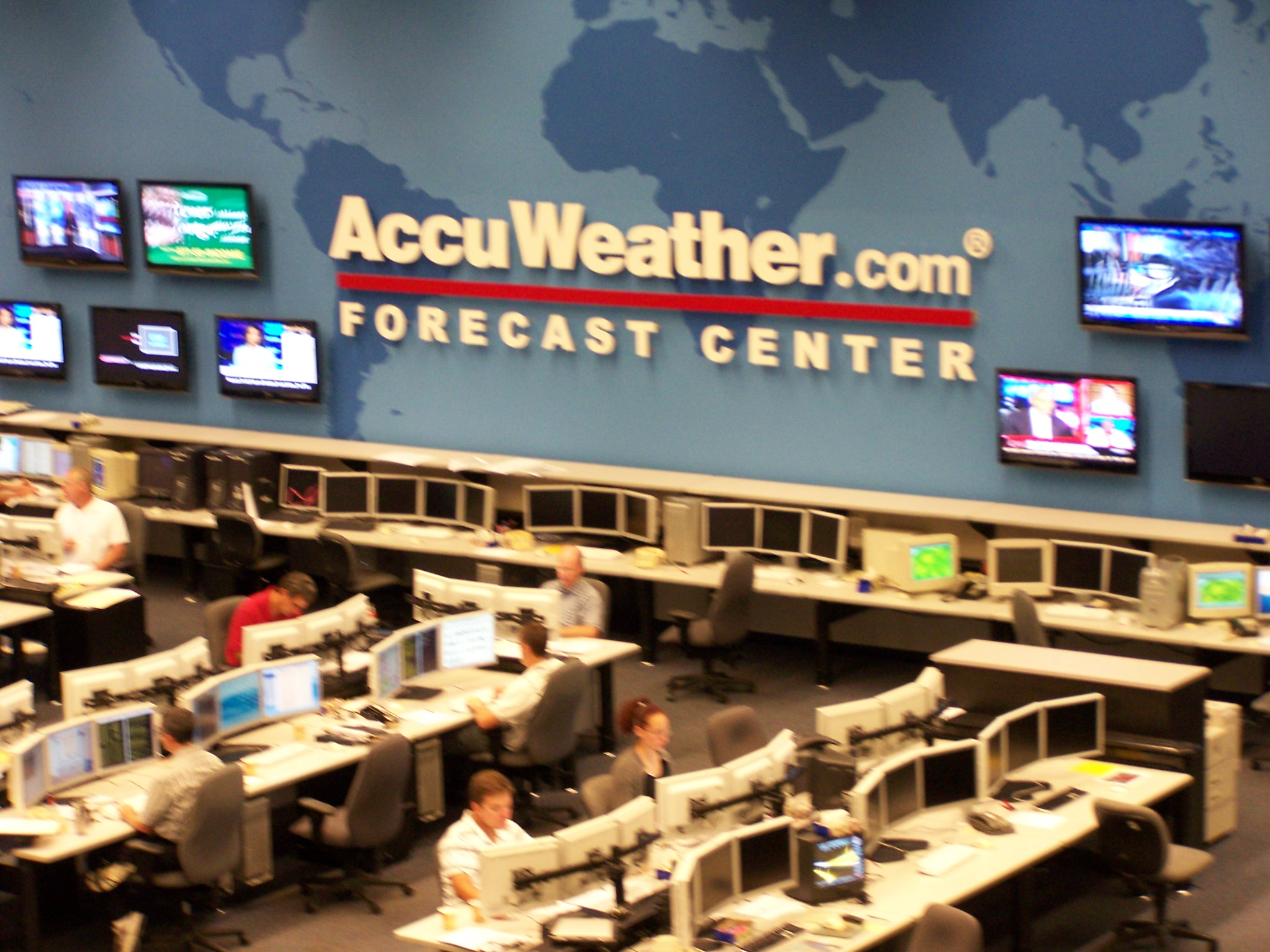 Accuweather